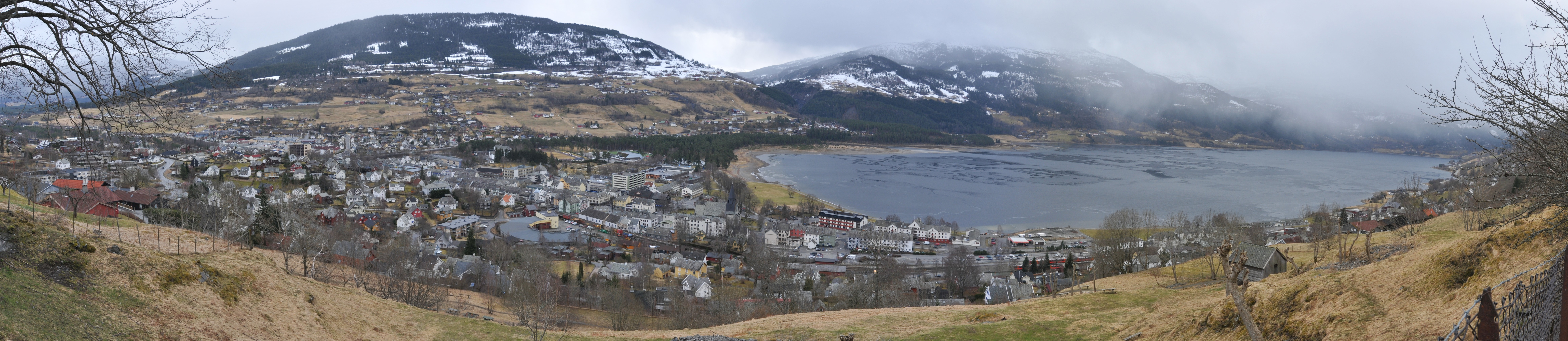 Panorama view of Voss, Norway